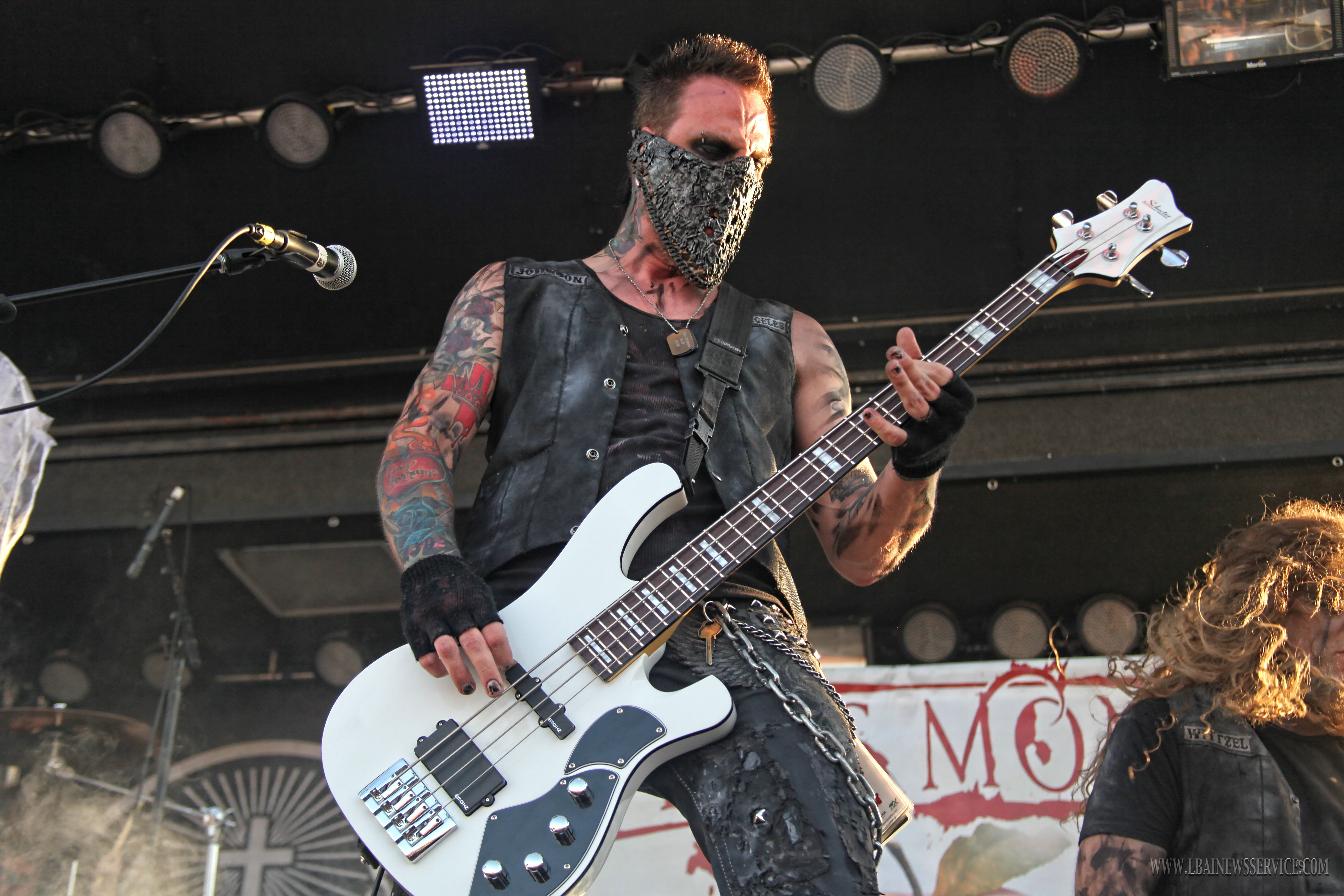 In This Moment performs at Fort Rock Festival 2013 at Jet Blue Park in Fort Myers - April 14, 2013